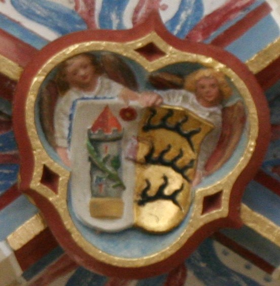 Keystone with the town's coat of arms in the Alexanderkirche in Marbach am Neckar